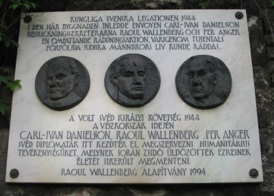 Budapest, Gellérthegy, Minerva utca 3/b.